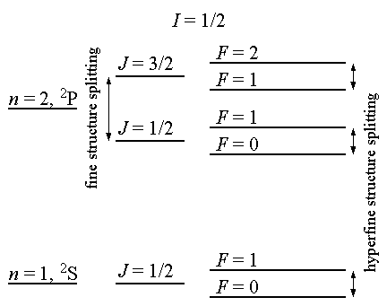 Fine and hyperfine structure in hydrogen. The coupling of the different angular momenta leads to energy level splitting. Not drawn to scale. The electron spin angular momentum, S is coupled to the electron orbital angular momentum, L, to form the total electronic angular momentum, J. This is subsequently coupled to the nuclear spin angular momentum, I, to form the total angular momentum, F. The term symbol takes the form 2S+1L with the values of L represented by letters (S,P,D,F,G,H,... = 0,1,2,3,4,5,...) so that, for instance, a 2P term represents a state with S=1/2 and L=1. The single electron in a 1s subshell gives rise to the 2S term. L=0 and S=1/2 can only combine to give J=1/2. This in turn can combine with the nuclear spin, I=1/2, to give total angular momentum F=0,1. The single electron in a 2p subshell gives rise to the 2P term. L=1 and S=1/2 can combine to give J=1/2 and J=3/2. These can combine with the nuclear spin, I=1/2, to give total angular momenta F=0,1 and F=1,2 respectively. The hyperfine splitting of the ground 2S state is the source of the 21 cm hydrogen line, important in astronomy.